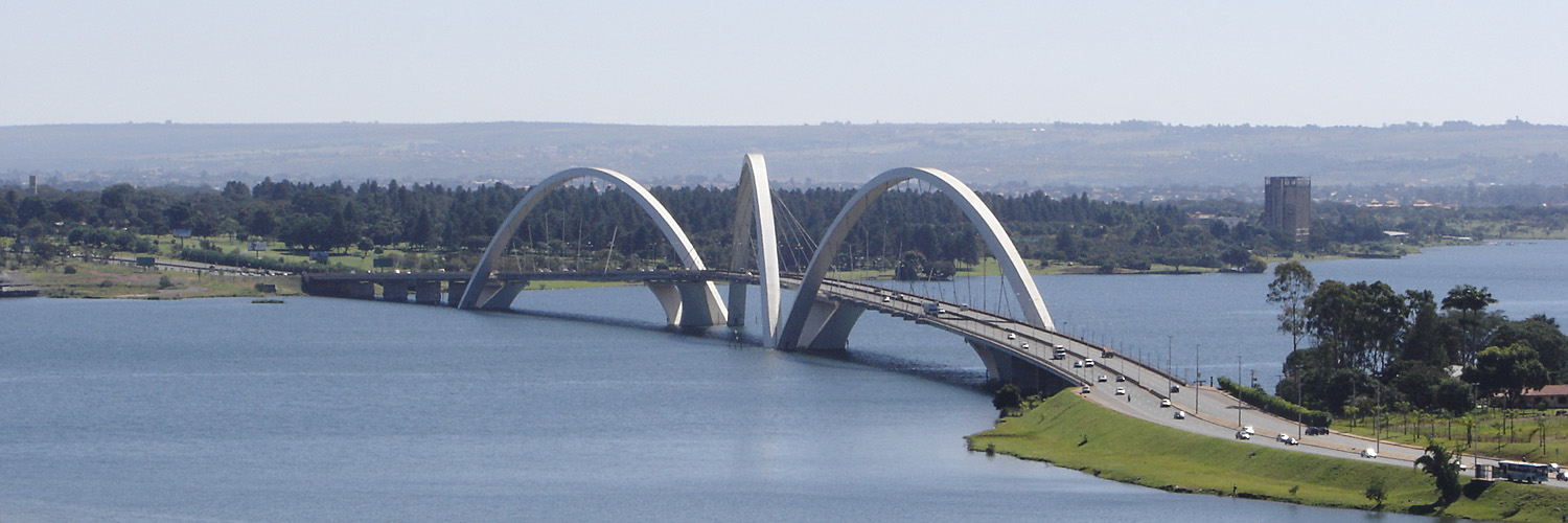 The JK bridge (for Juscelino Kubitschek) crossing the lake Paranoá in Brasília, Brazil ; viewed from the eastern lake side